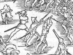 Detail of The battle of Kappel, October 11, 1531.